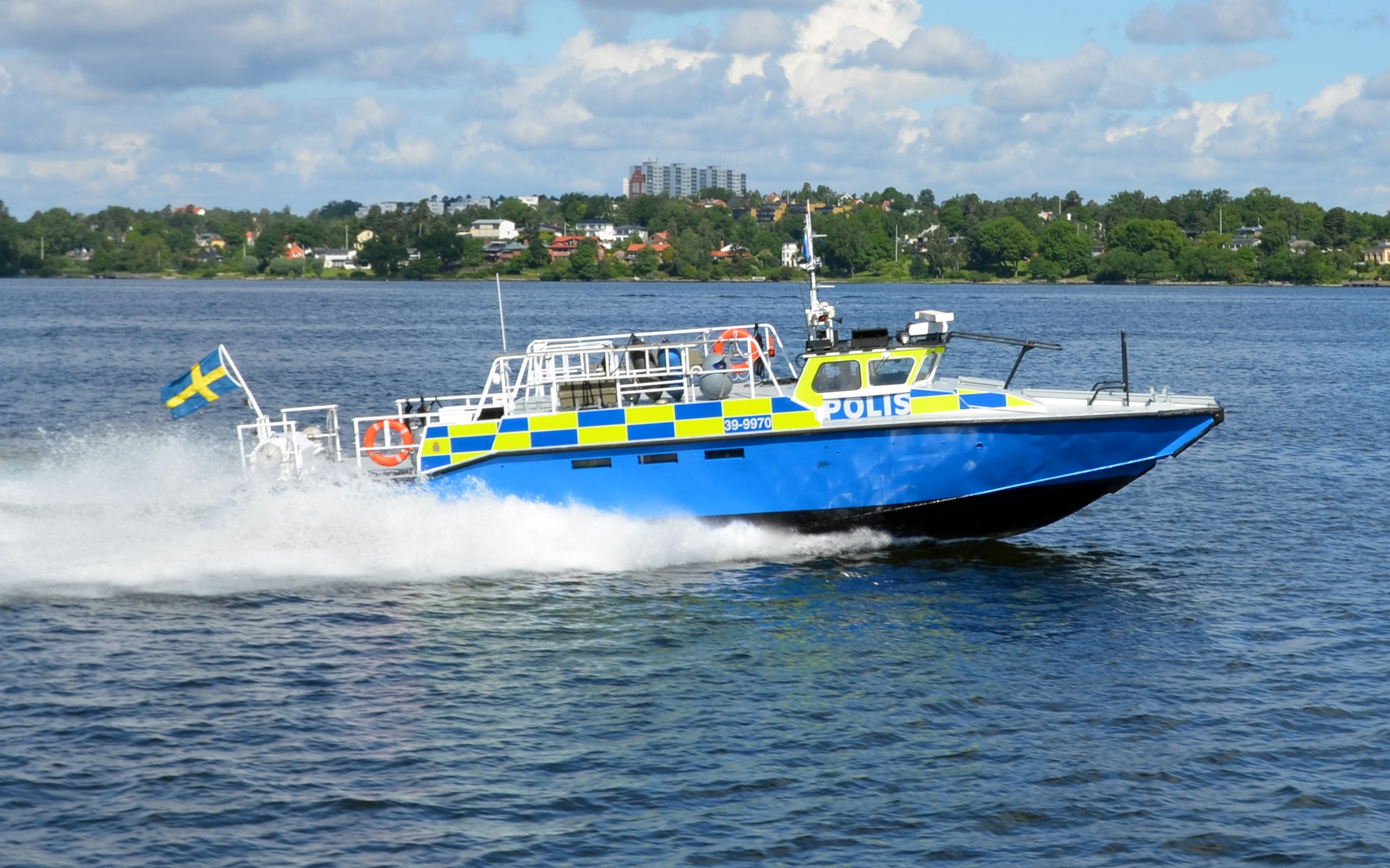 A CB90 fast assault craft used by the swedish police.